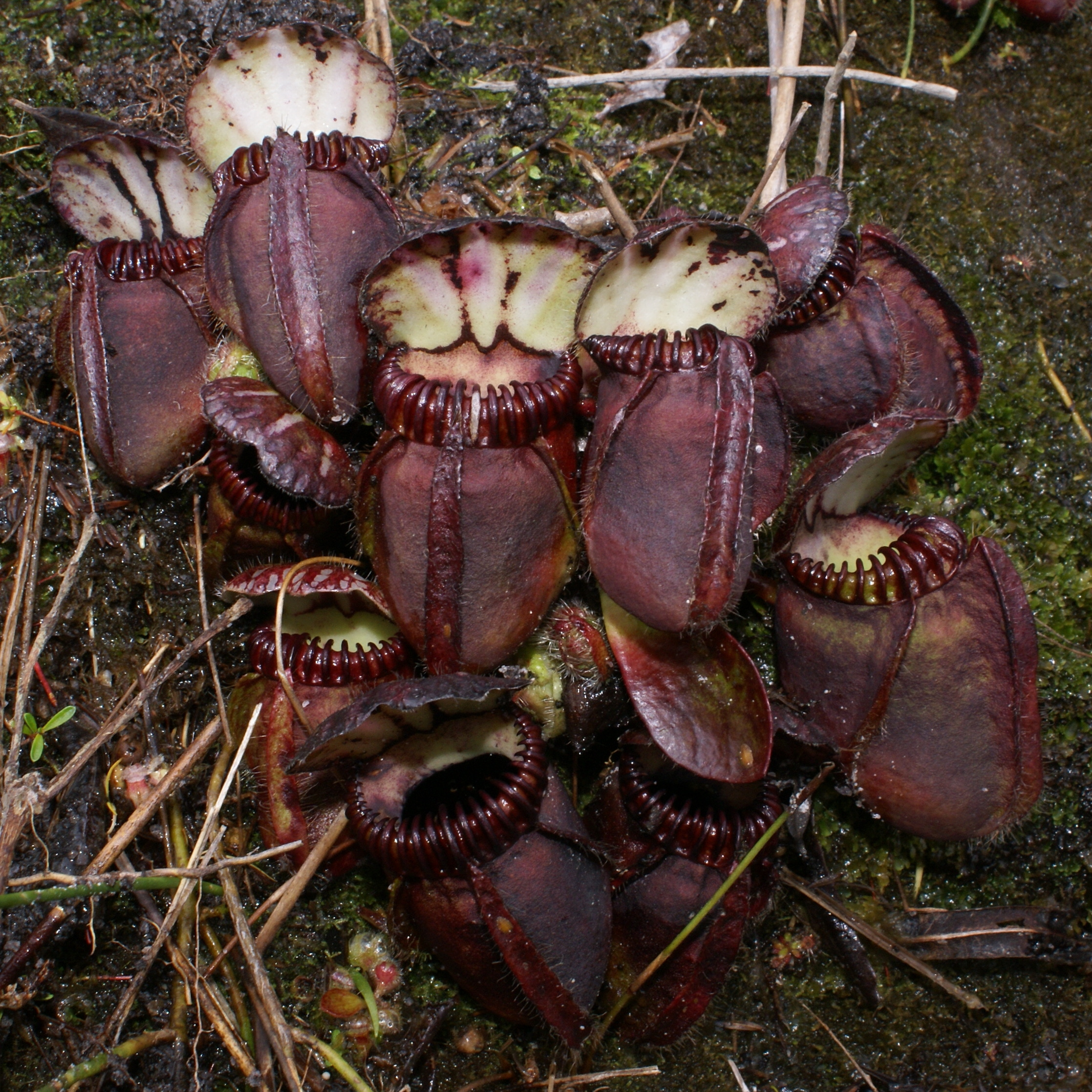 Cephalotus follicularis in situ / SW Australia Coast